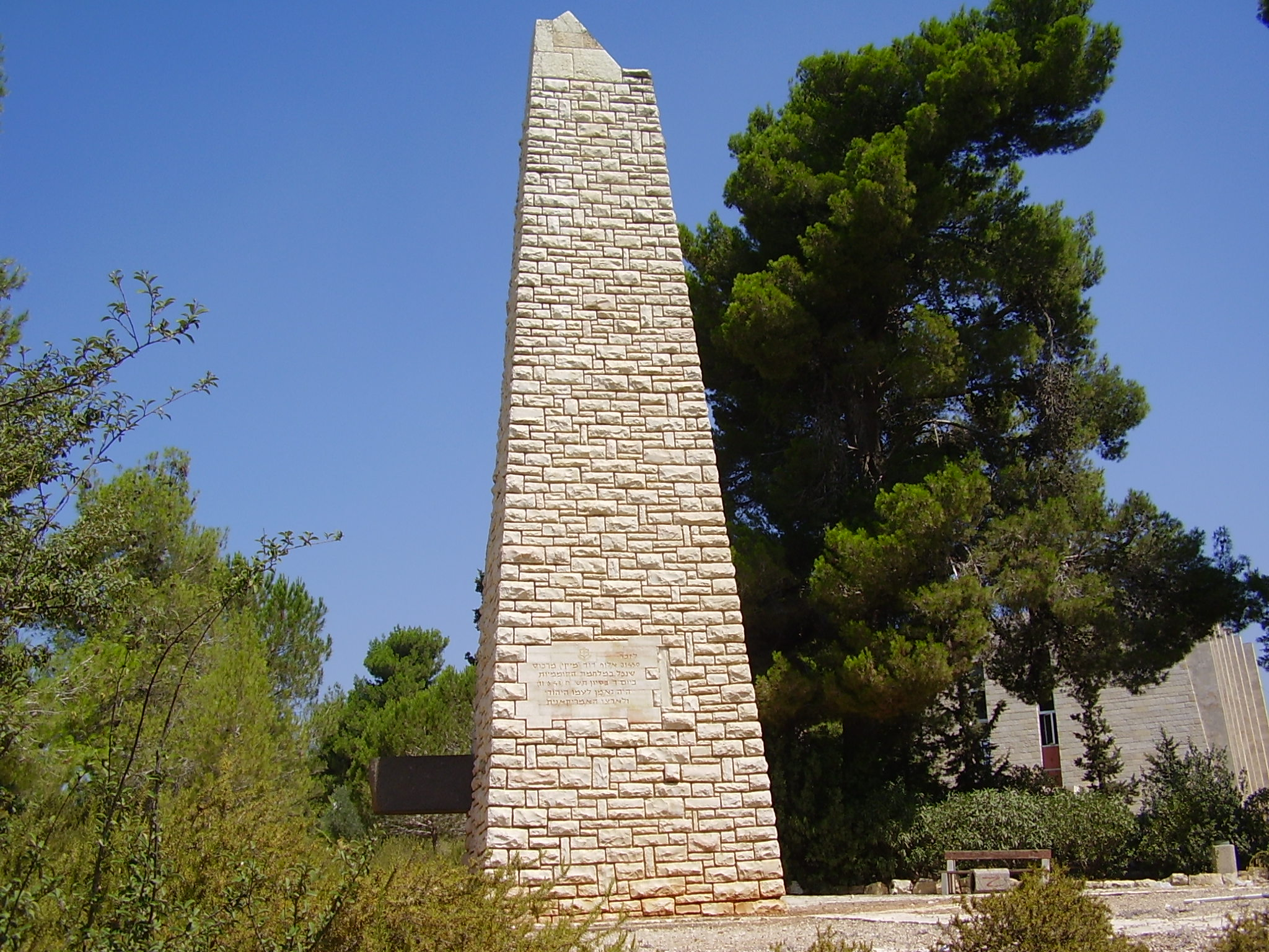 A memorial commemorating Major General Mickey Marcus near the village of Abu Ghosh, Israel